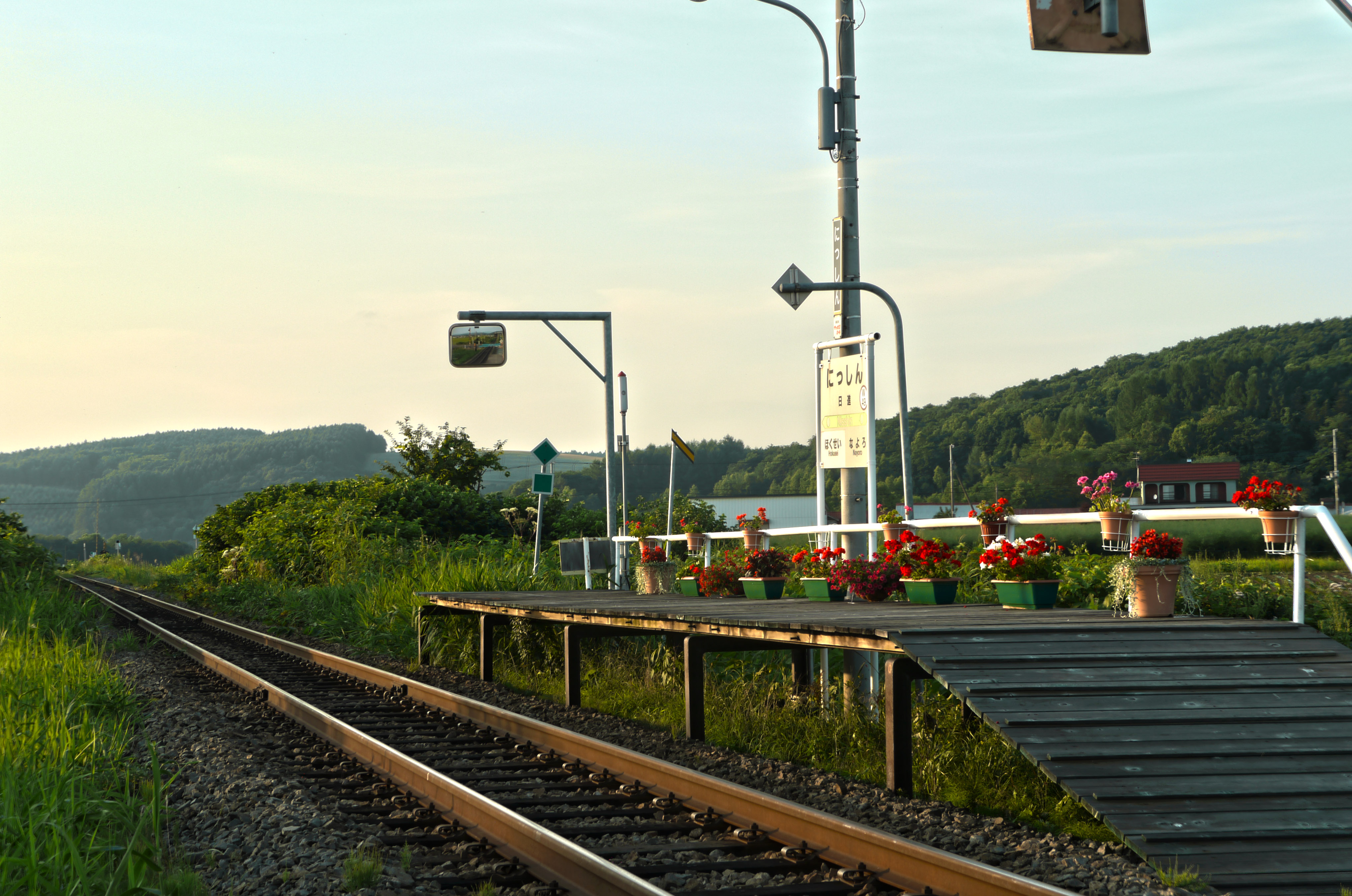 Platform of Nisshin Station in Nayoro, Hokkaido, Japan